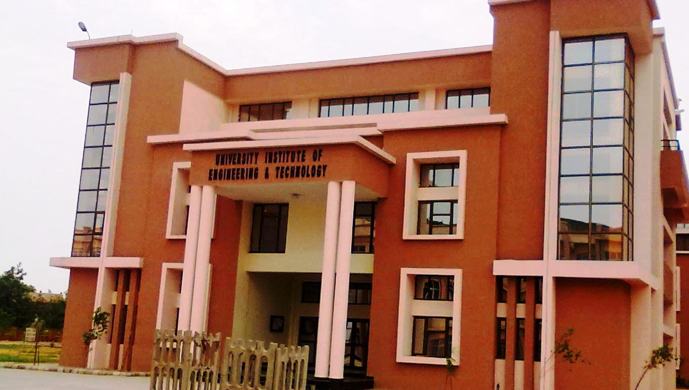 UIET rohtak